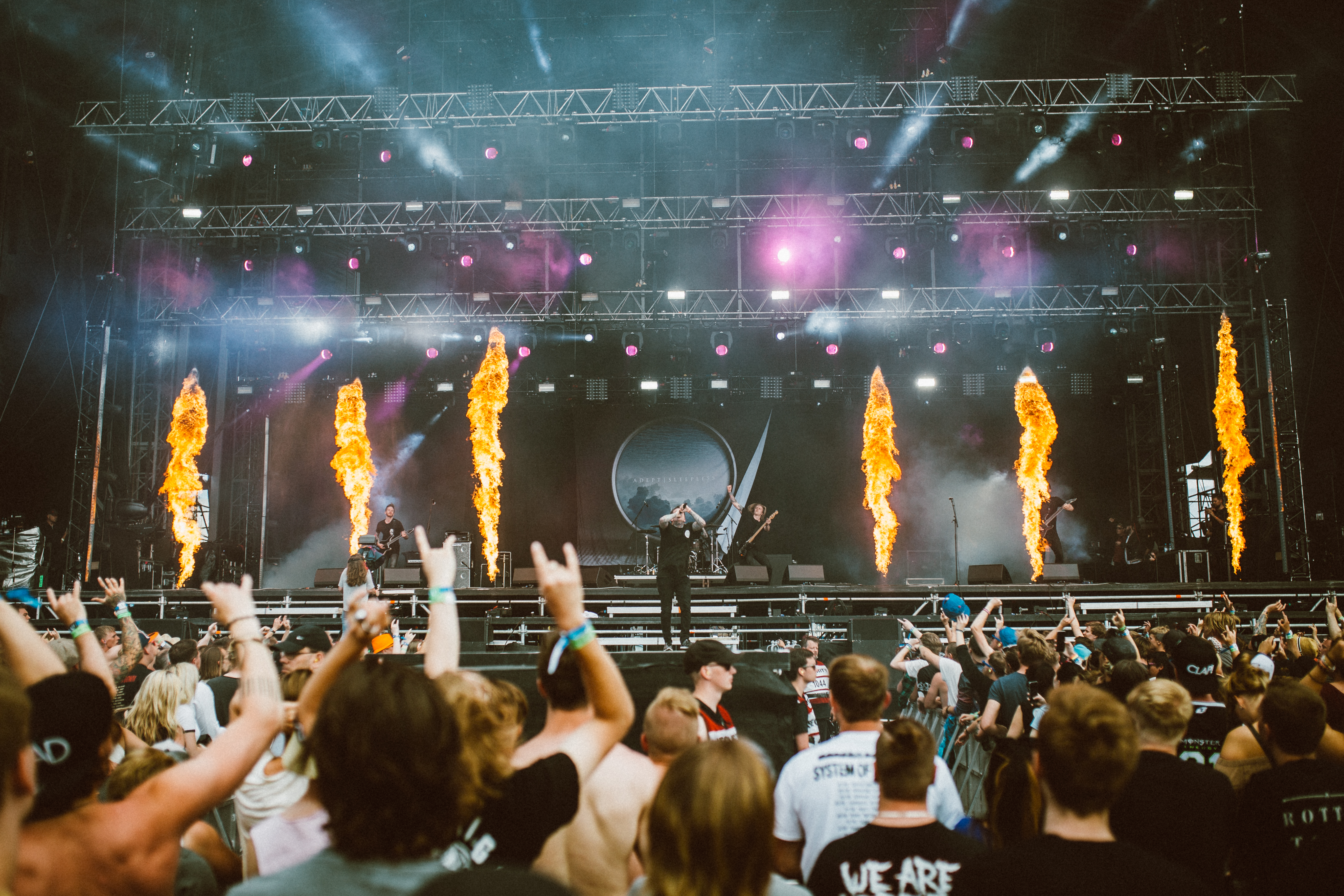 Picture of Adept live